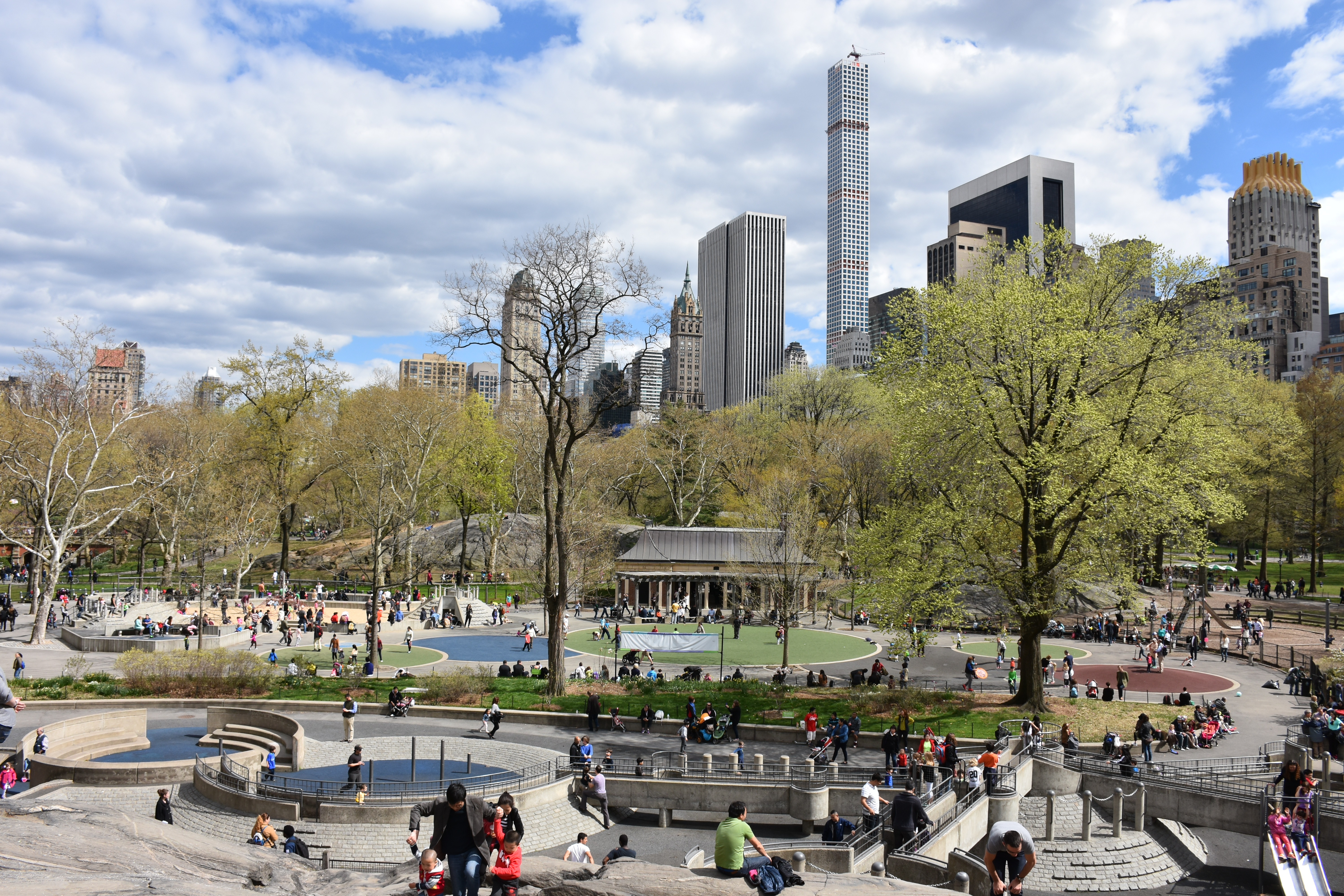 Heckscher Playground and some of the Manhattan skyline along Central Park South, from "rat rock" in Central Park, New York City